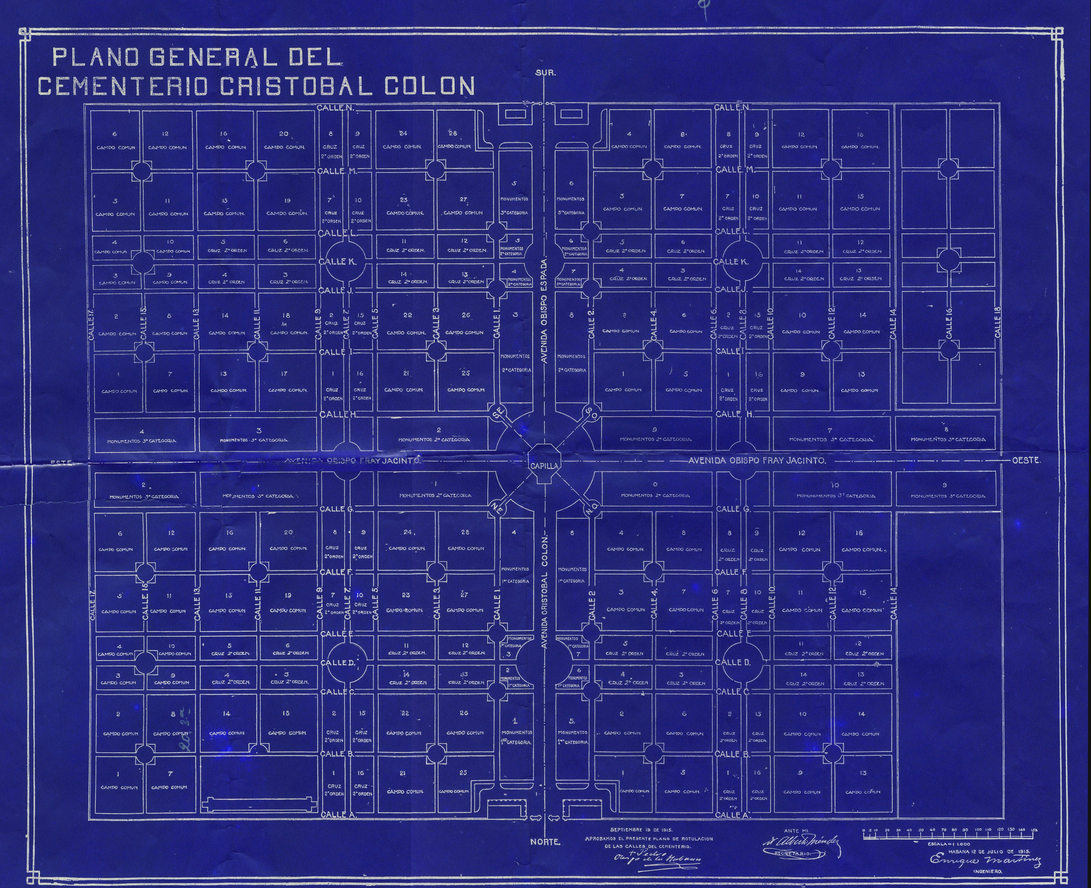 Colon Cemetery_Floor Plan. Havana, Cuba. 1915. Enrique Martinez, Engineer/